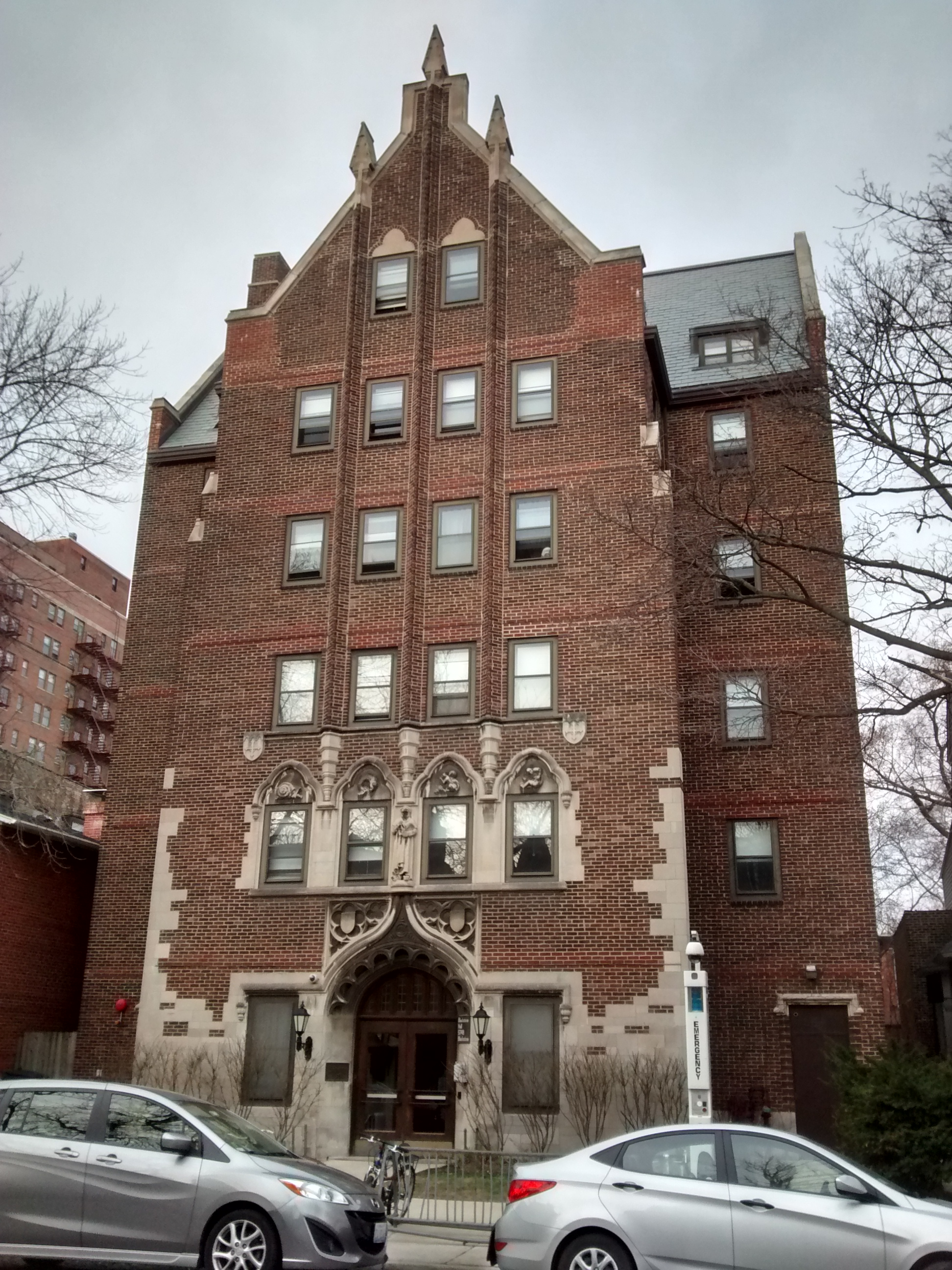 Blackstone Hall at the University of Chicago.